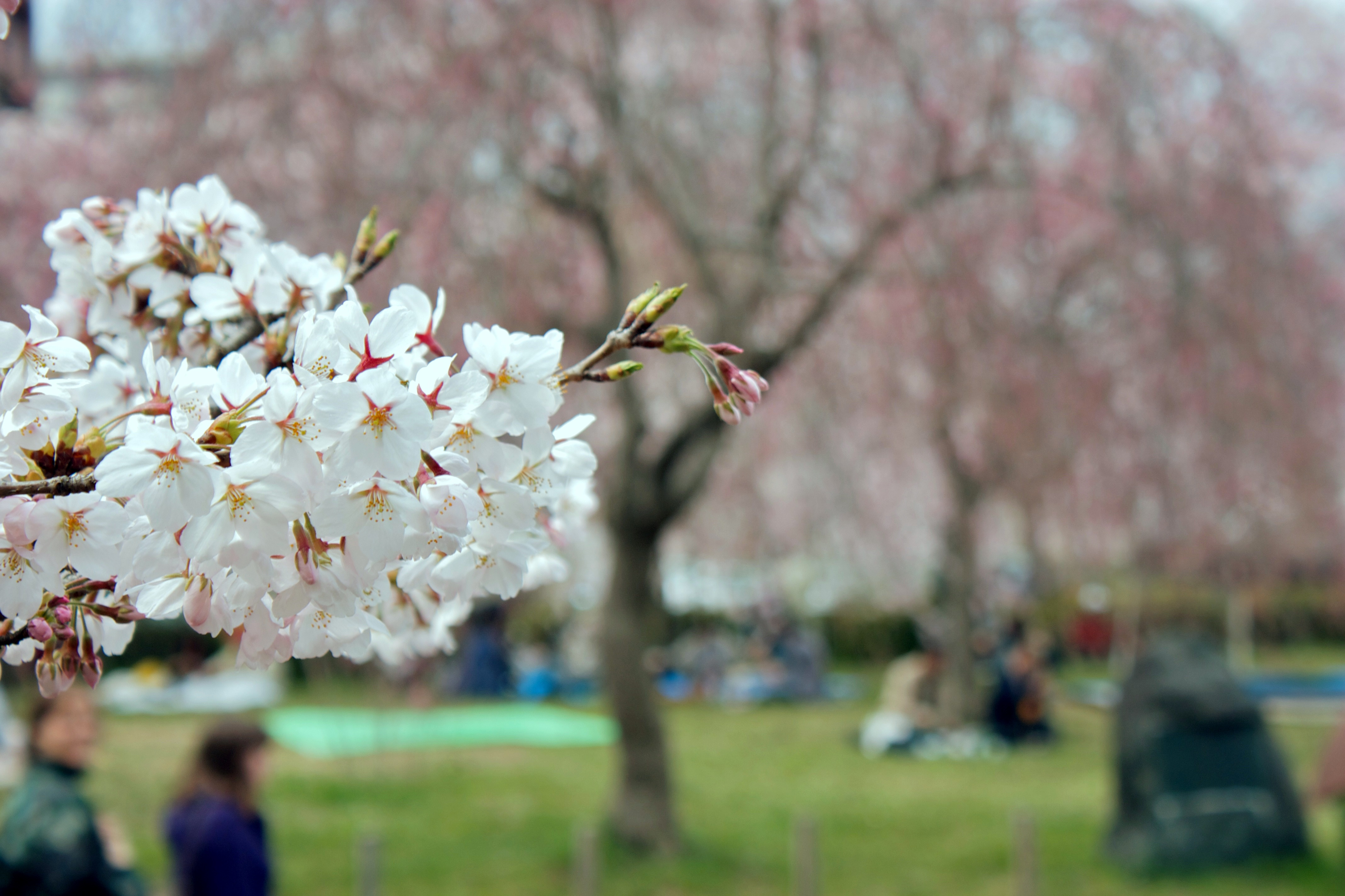 Cherry blossoms at the Tsutsujigaoka Park in Sendai, Miyagi, Japan, in April 2011.